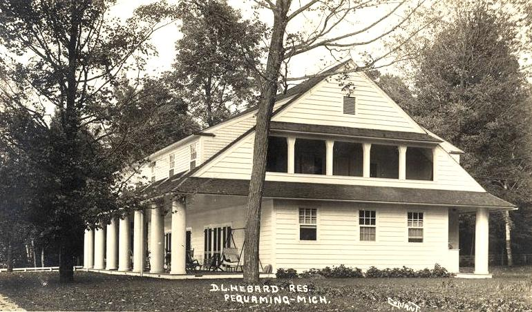 Hebard-Ford House, Pequaming MI (Baraga County)